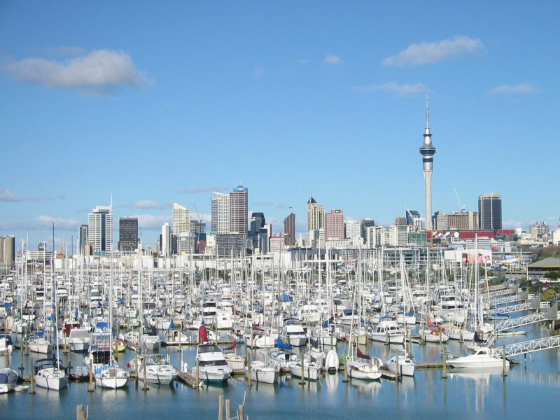 View of central Auckland, New Zealand Taken by Joseph Watkins